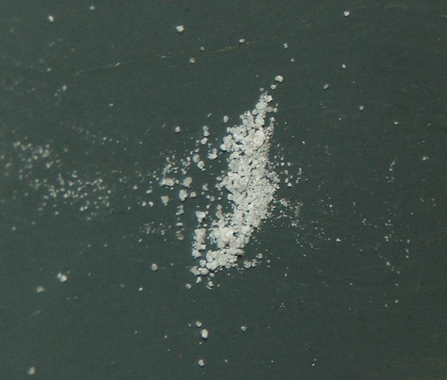 Aluminium borate